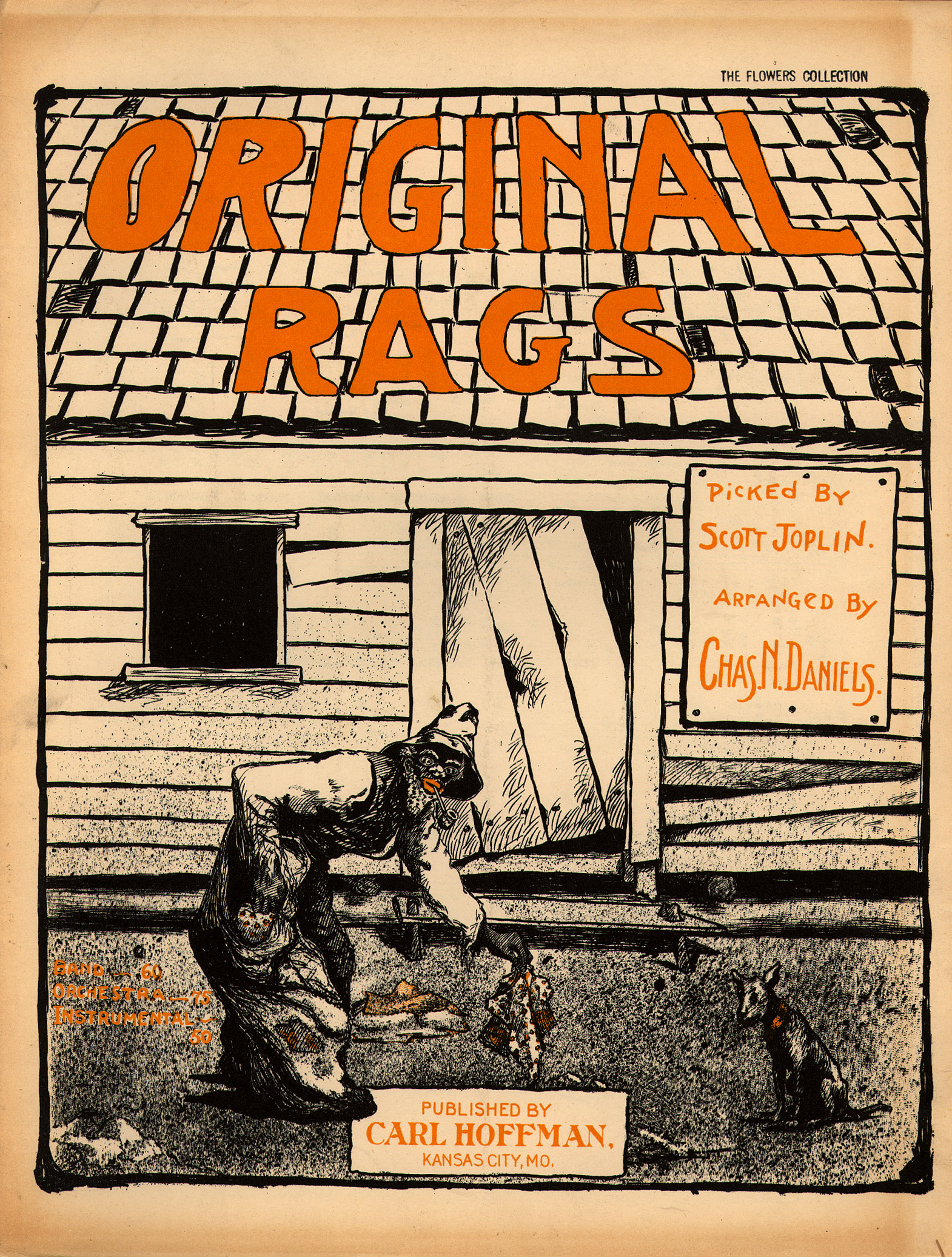 Scott Joplin, Original Rags, 1899